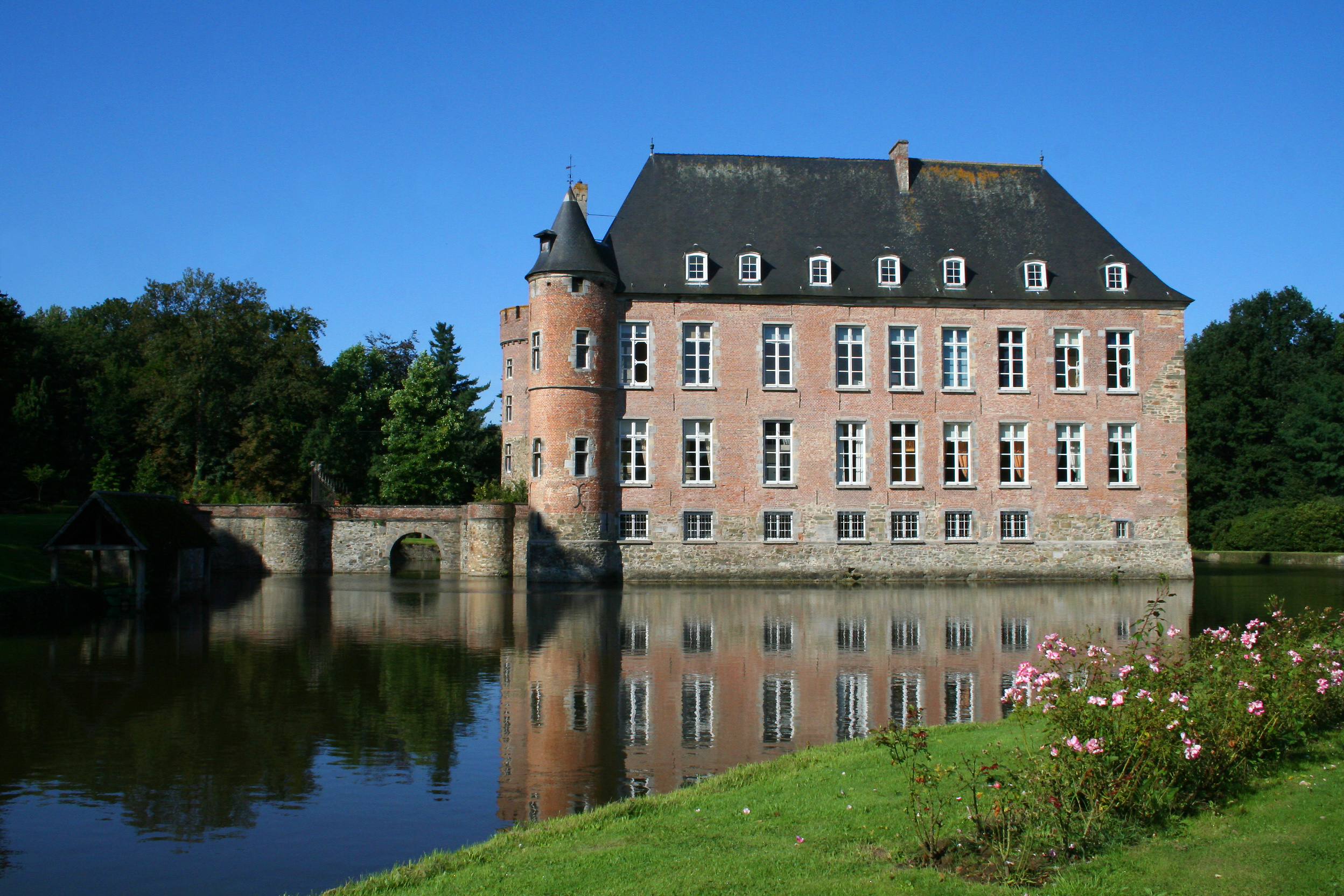 Braine-le-Château, the Robiano castle (XIIth century).